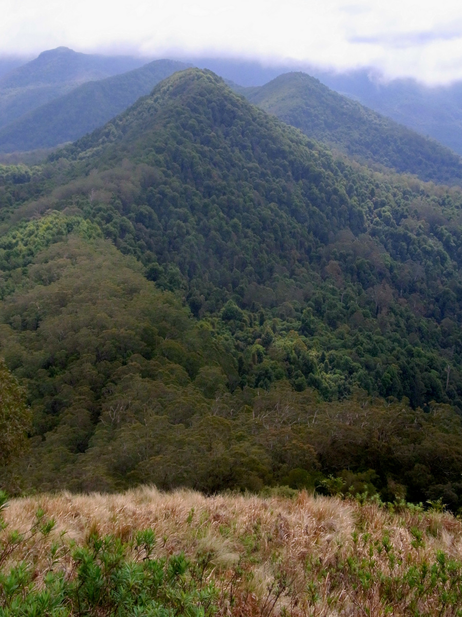 Allyn Range from Mount Allyn, Barrington Tops region. Eremeren Point (far distance left), Ben Bullen, Mount Gunama, Mount Lumeah (closest) and Mount Allyn (grassy foreground) NSW Australia